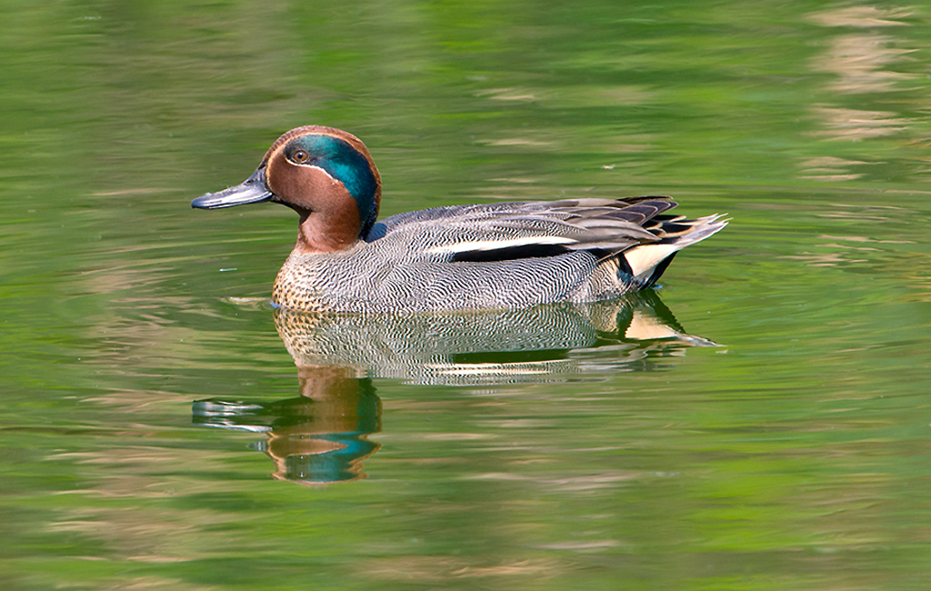 Common Teal (Anas crecca) is one of the smallest but prettiest common winter migrants to India. This is a male photographed in a small private pond protected by the owner Mithoo Lal near Village Roza , District Shajahanpur, UP in March. 2013